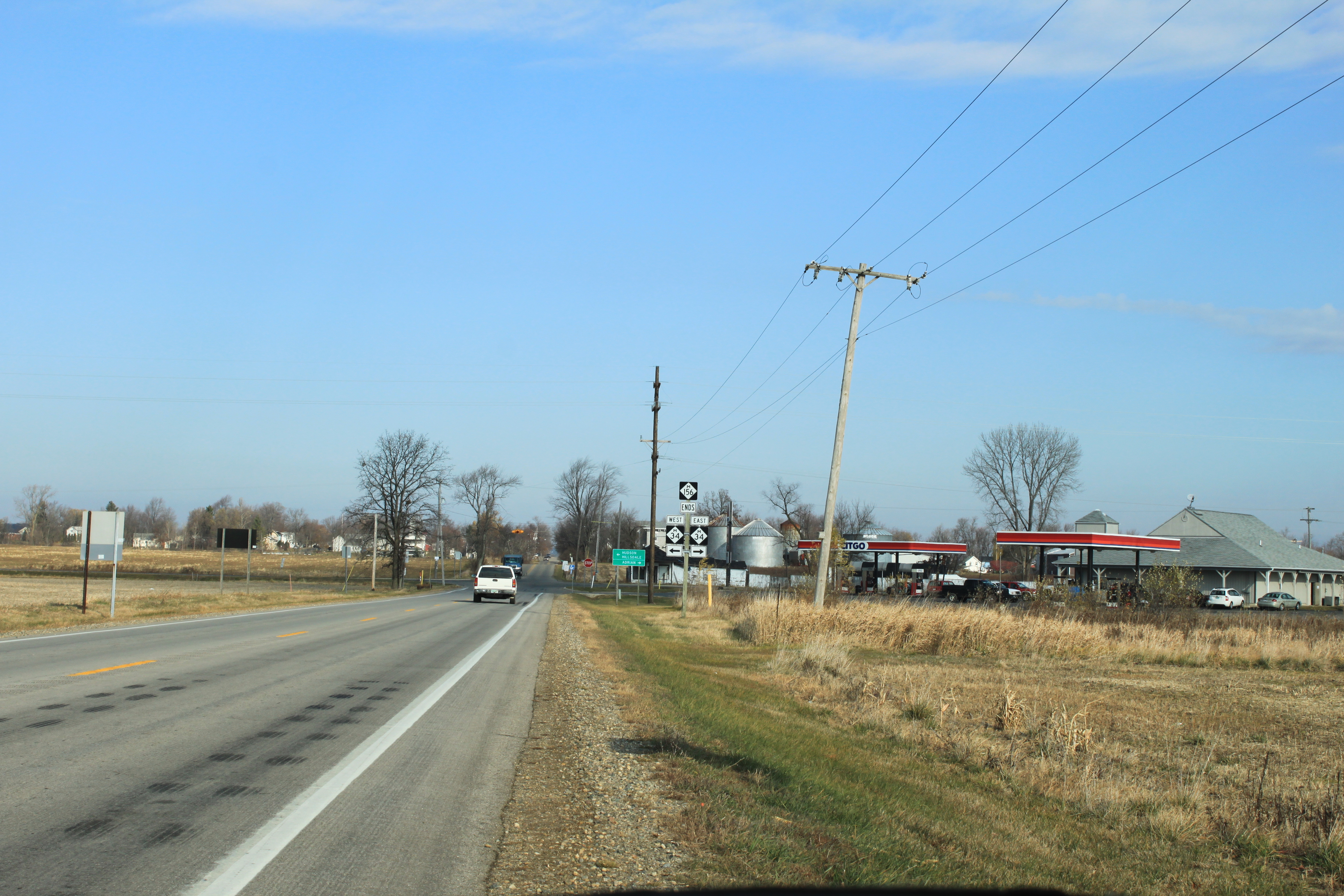 M-156 Michigan higway northern terminus at M-34 intersection, Clayton, Michigan